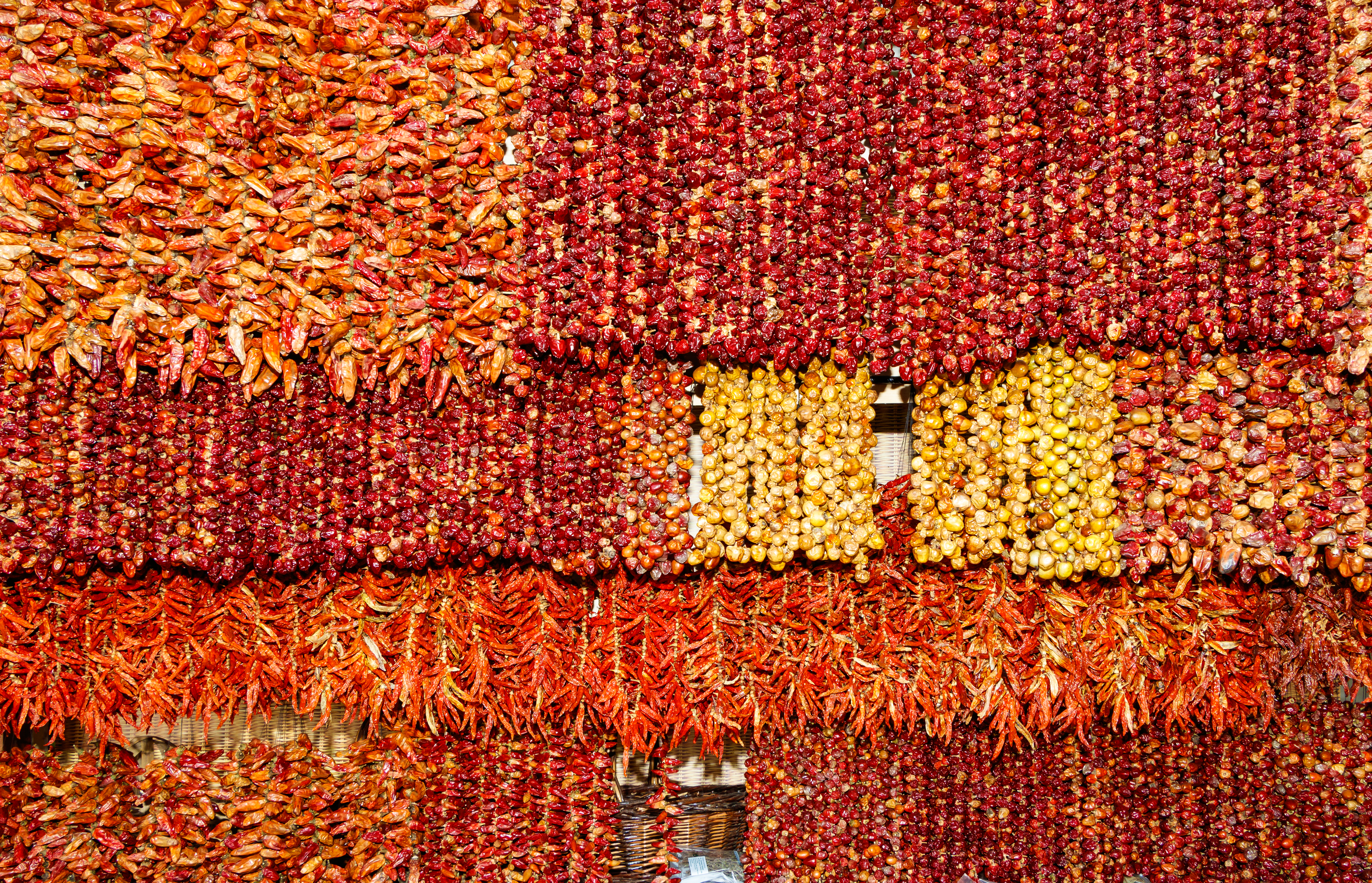 Dried Capsicum, Mercado dos Lavradores, Funchal, Madeira, Portugal